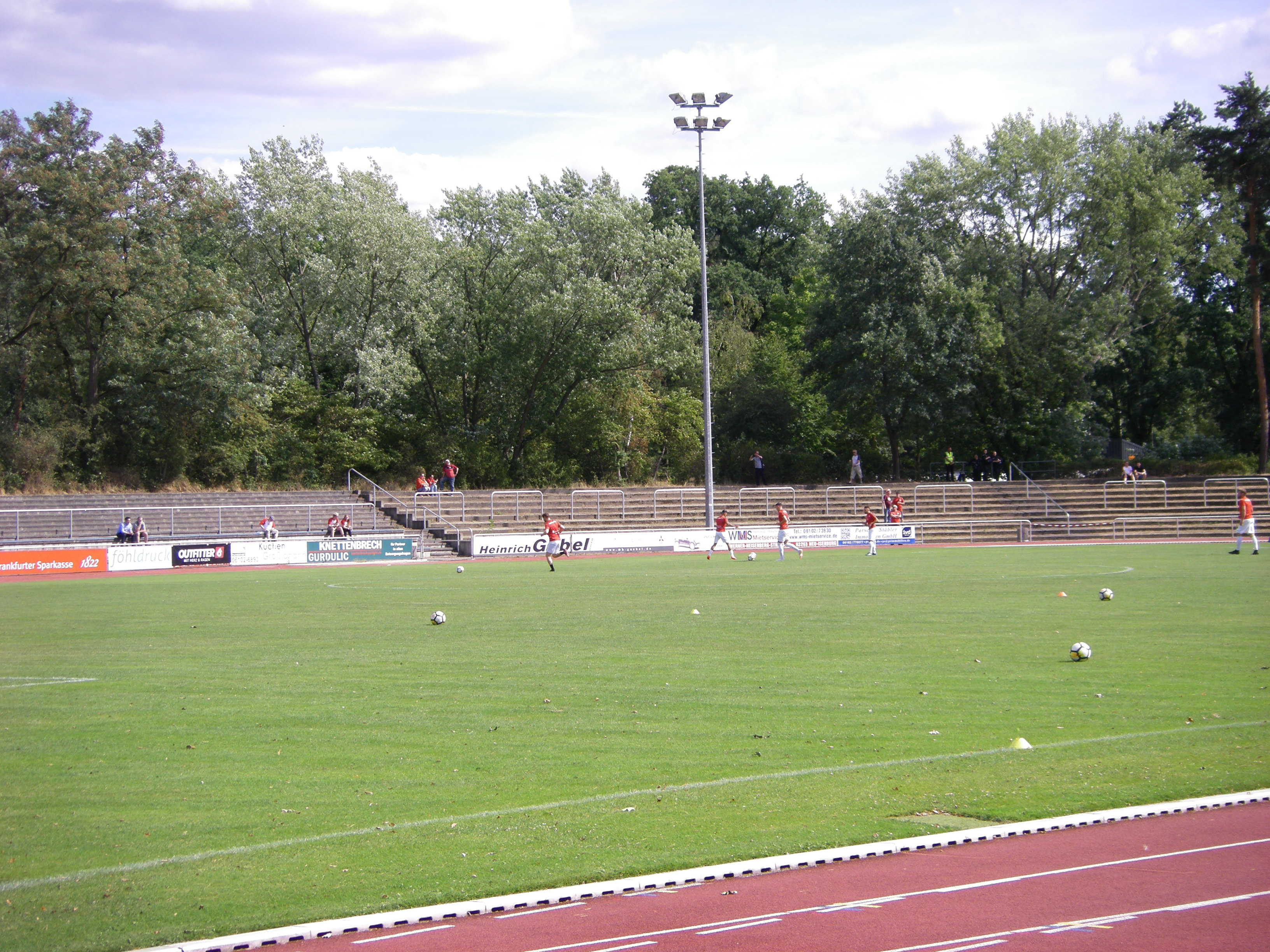 Stadium of SpVgg 03 Neu-Isenburg, near Frankfurt